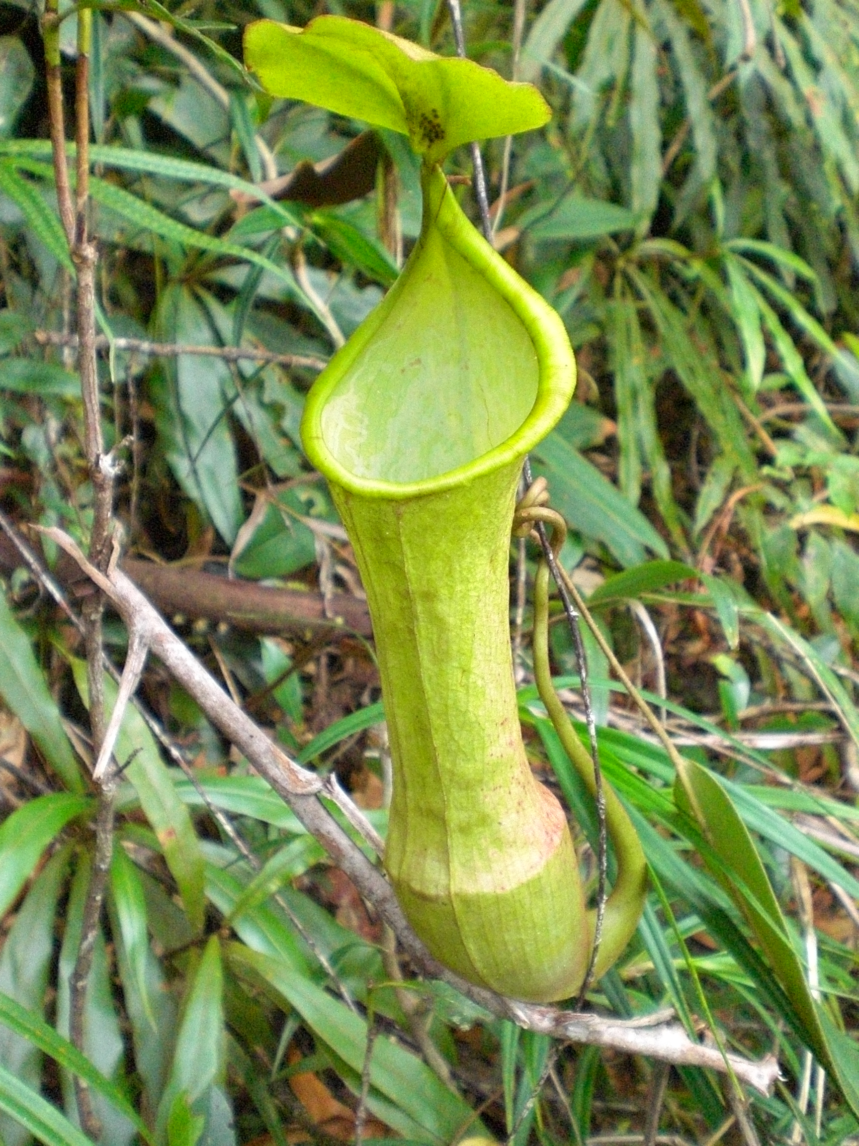 Unidentified Pitcher plant — Nepenthes sp. Found in Mount Hamiguitan Range, San Isidro, in Davao Oriental Province of the Mindanao islands region of the southern Philippines. Taken from Nov 29-Dec 1, 2009.